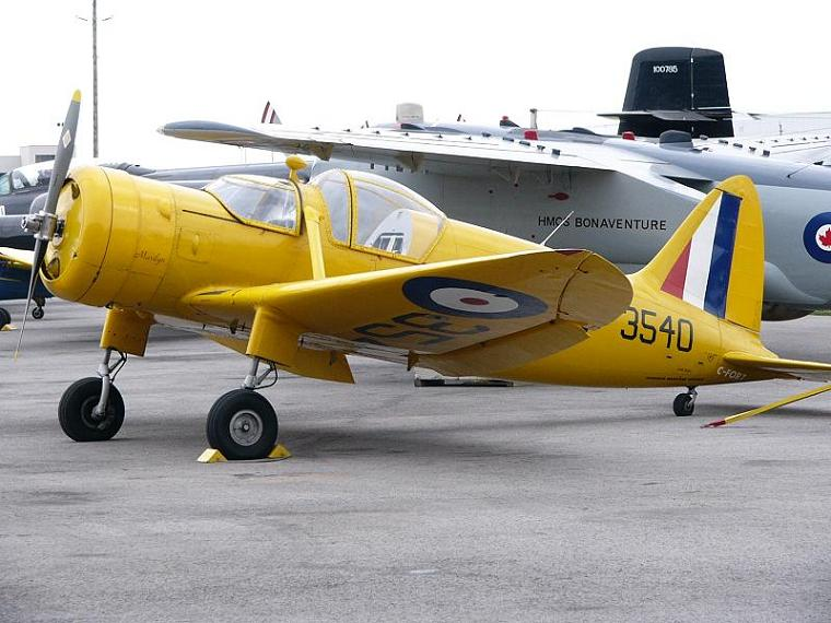 Photo of a Fleet Fort that I took at Canadian Warplane Heritage Museum 25 September 2004